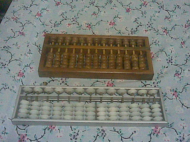 This is a picture of two abaci: a suanpan and a soroban. Despite the appearances, they are both made in Mainland China.